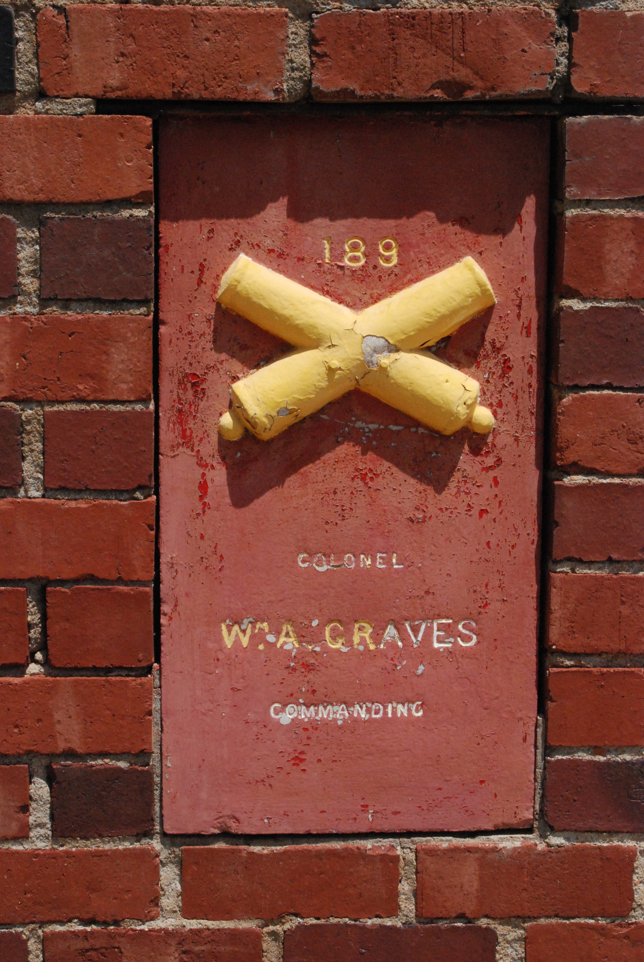 Plaque on Enid Armory (July 2011). Reads: 189 Colonel Wm. A. Craves Commanding